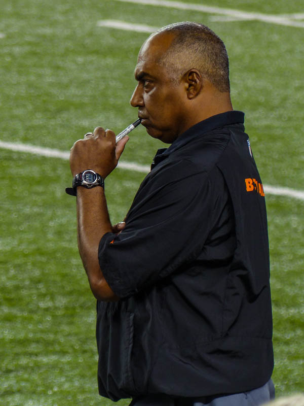 Before Monday Night Football game vs the Pittsburgh Steelers, September 17, 2013